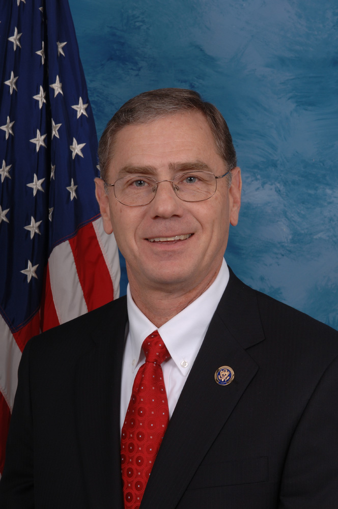 Blaine Luetkemeyer, member of the United States House of Representatives.